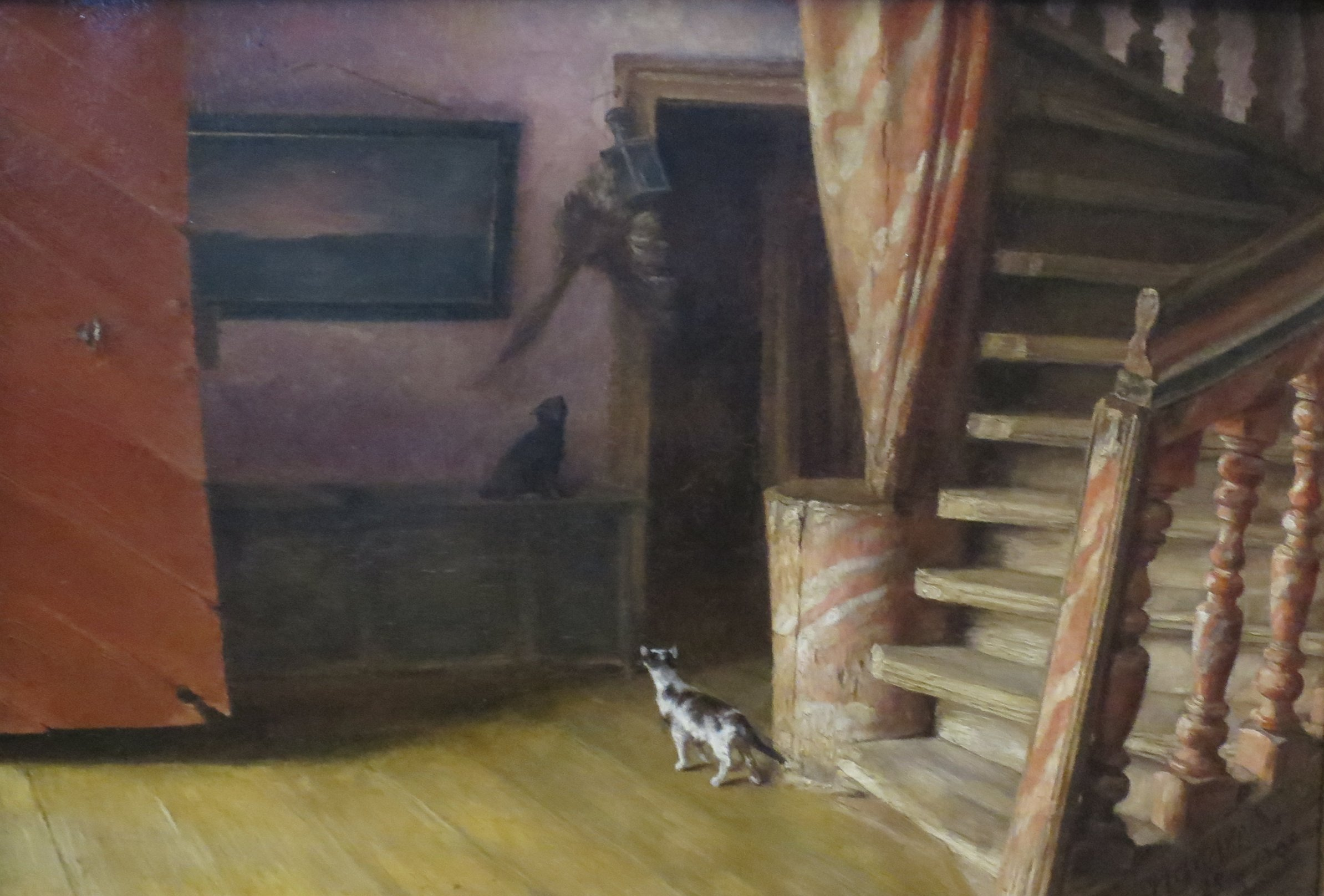 Staircase in the Rosendal Manor by Marcus Grønvold, 1903, oil on canvas, Bergen Kunstmuseum